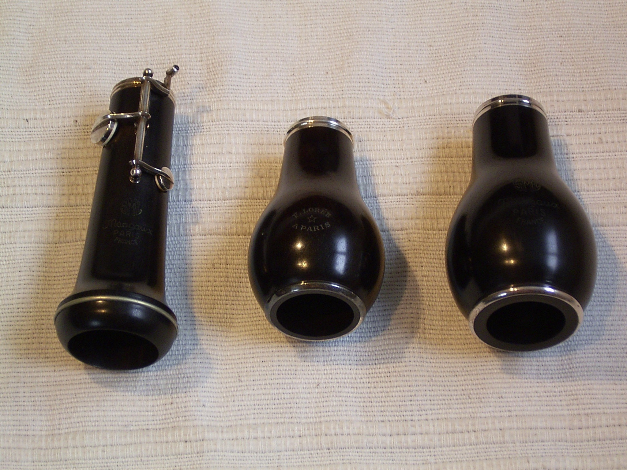 Bell of the Oboes